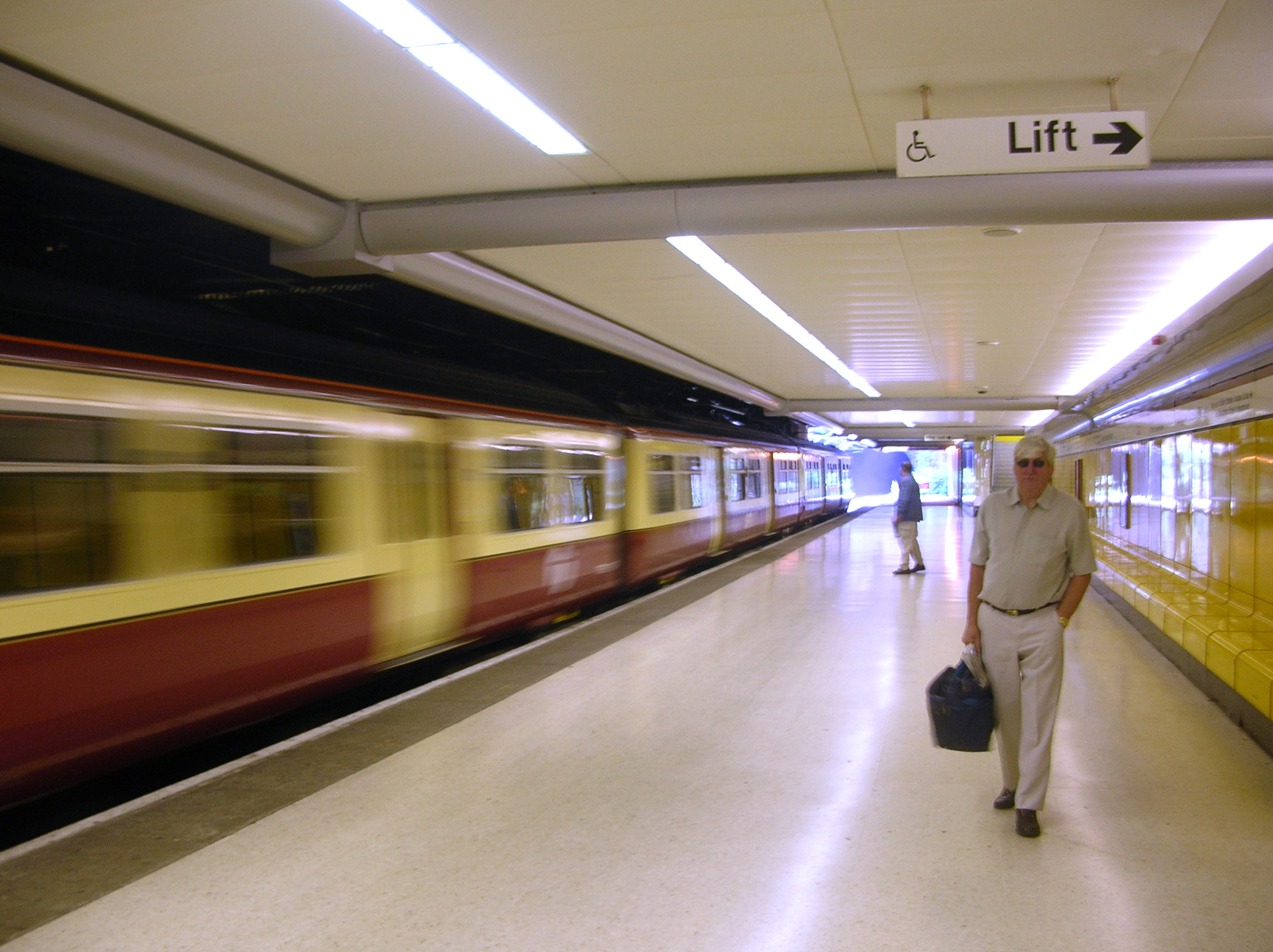 A low level platform of Glasgow Queen Street station in Glasgow. Image taken by Maccoinnich July 2005